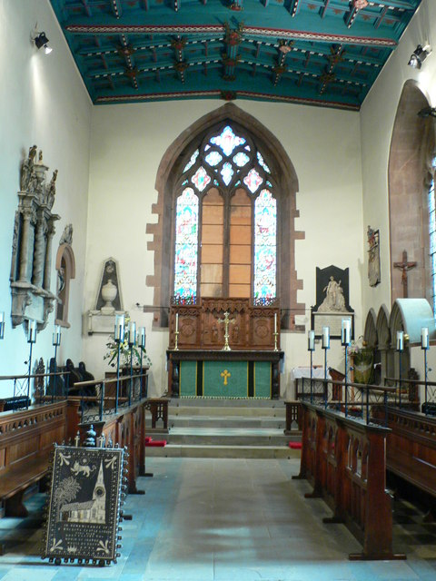 St Peter's Church, Ruthin The interior of the southern nave of the church - the stained glass panels in the eastern end are in the process of being repaired. The roof timbers in this part of the church have been painted green 569852.